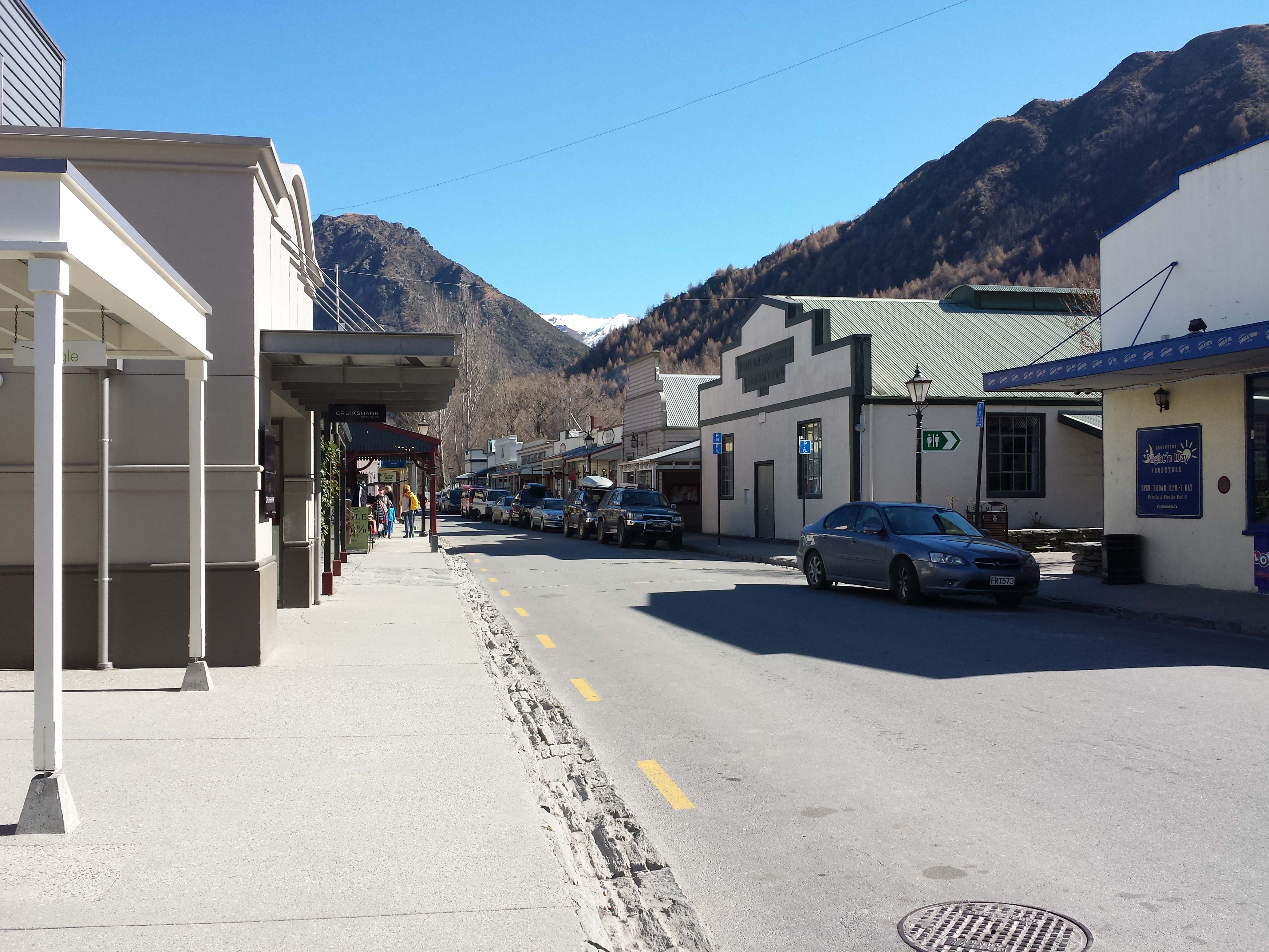 Street in historic Arrowtown, New Zealand